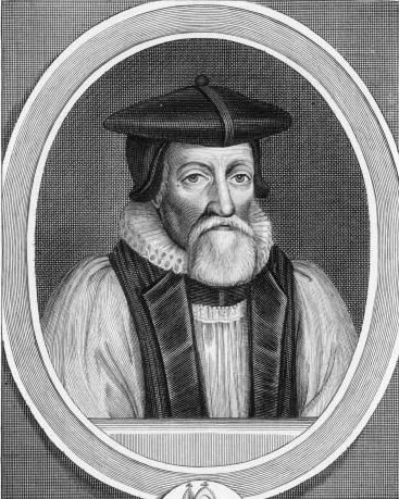 Thomas Morton (1564-1659)